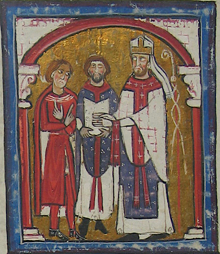 Liber feudorum Ceritaniae - Jurament sacramental que fa Ermengol, bisbe d'Urgell, a Guifré, comte de Cerdanya